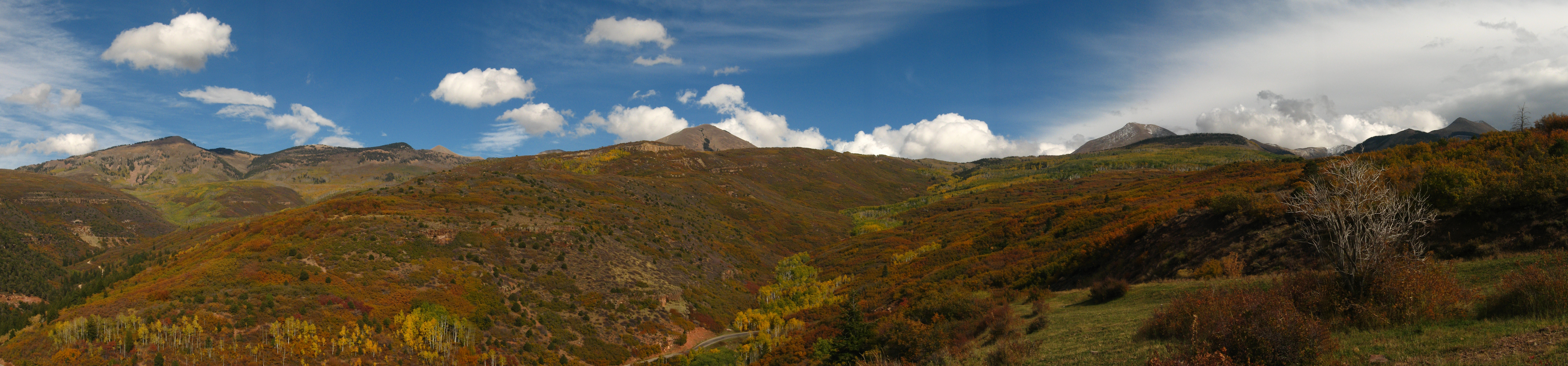 La Sal mountain range in mid fall. Taken above Horse Creek Gorge Showing several peaks including Haystack, Mellenthin, Peale, and Tukuhnikivatz